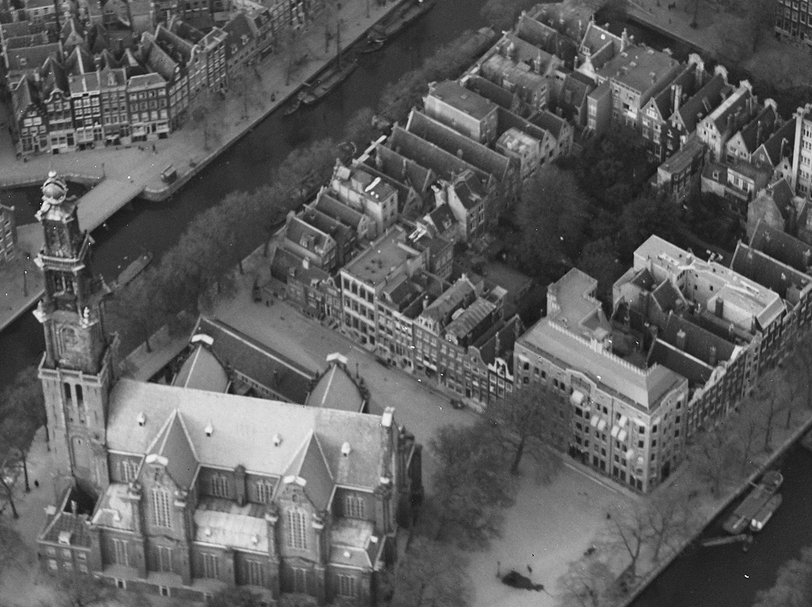 Aerial photograph of Amsterdam, The Netherlands. Westerkerk (Amsterdam).